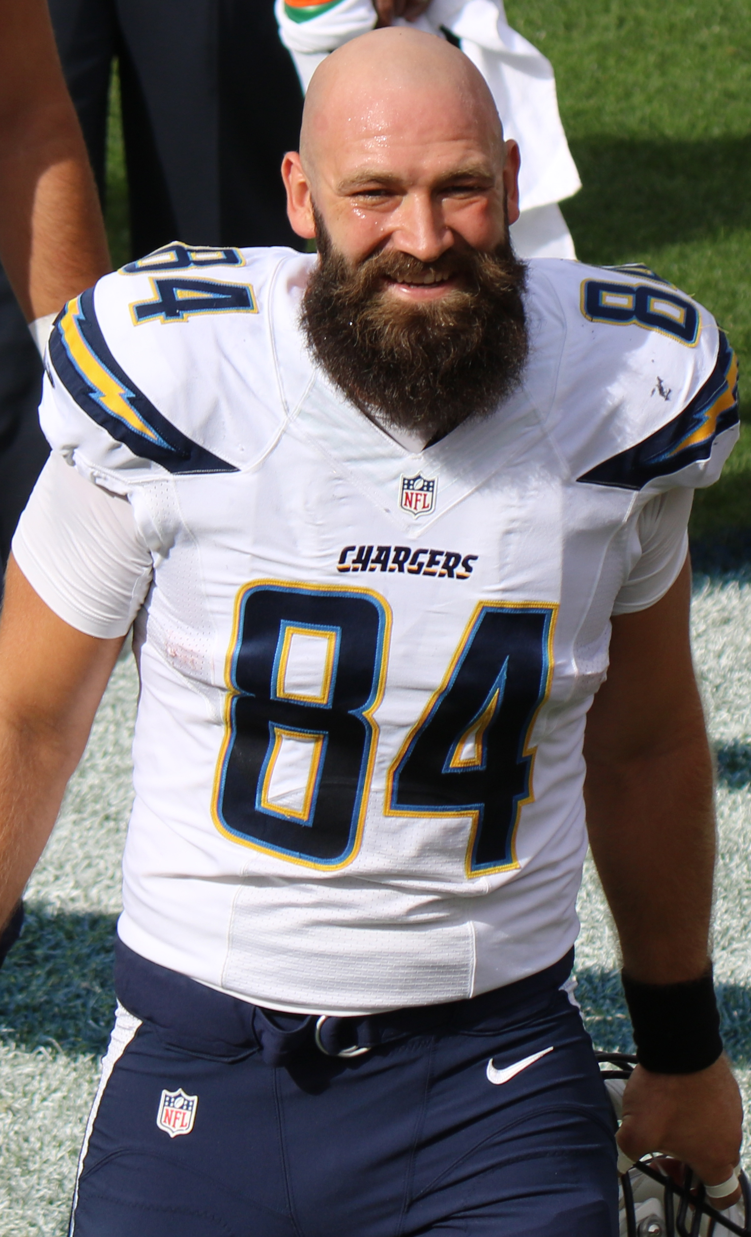 Sean McGrath, a player on the National Football League.